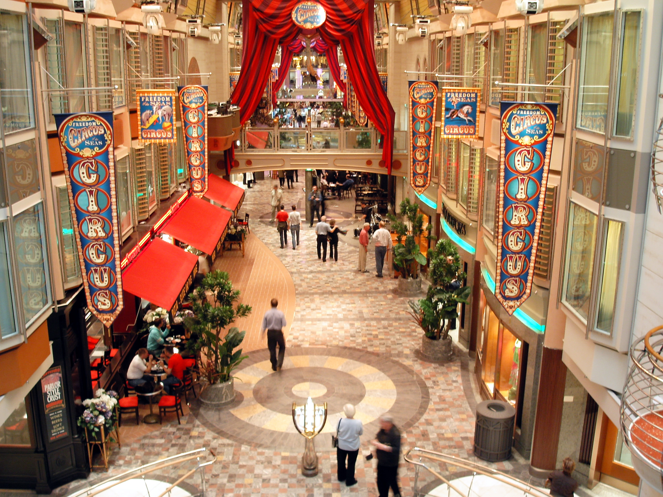 Royal Promenade aboard Freedom of the Seas